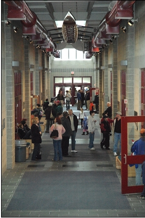 The main concourse of the Fish Center for Health & Athletics at Tabor Academy, a private preparatory boarding school in Marion, MA.